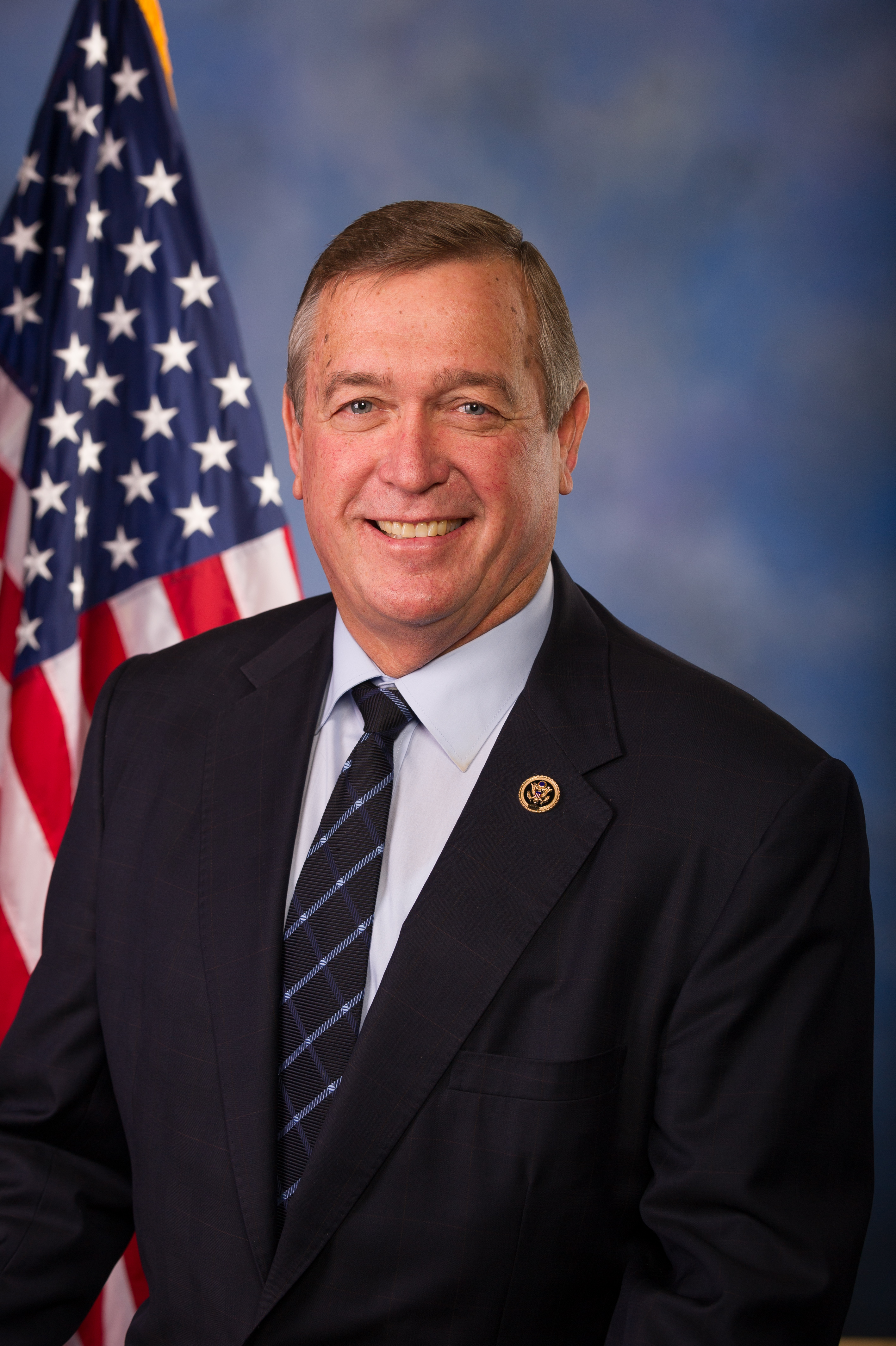 Official photo of U.S. Congressman Cresent Hardy, representative for Nevada's 4th Congressional District